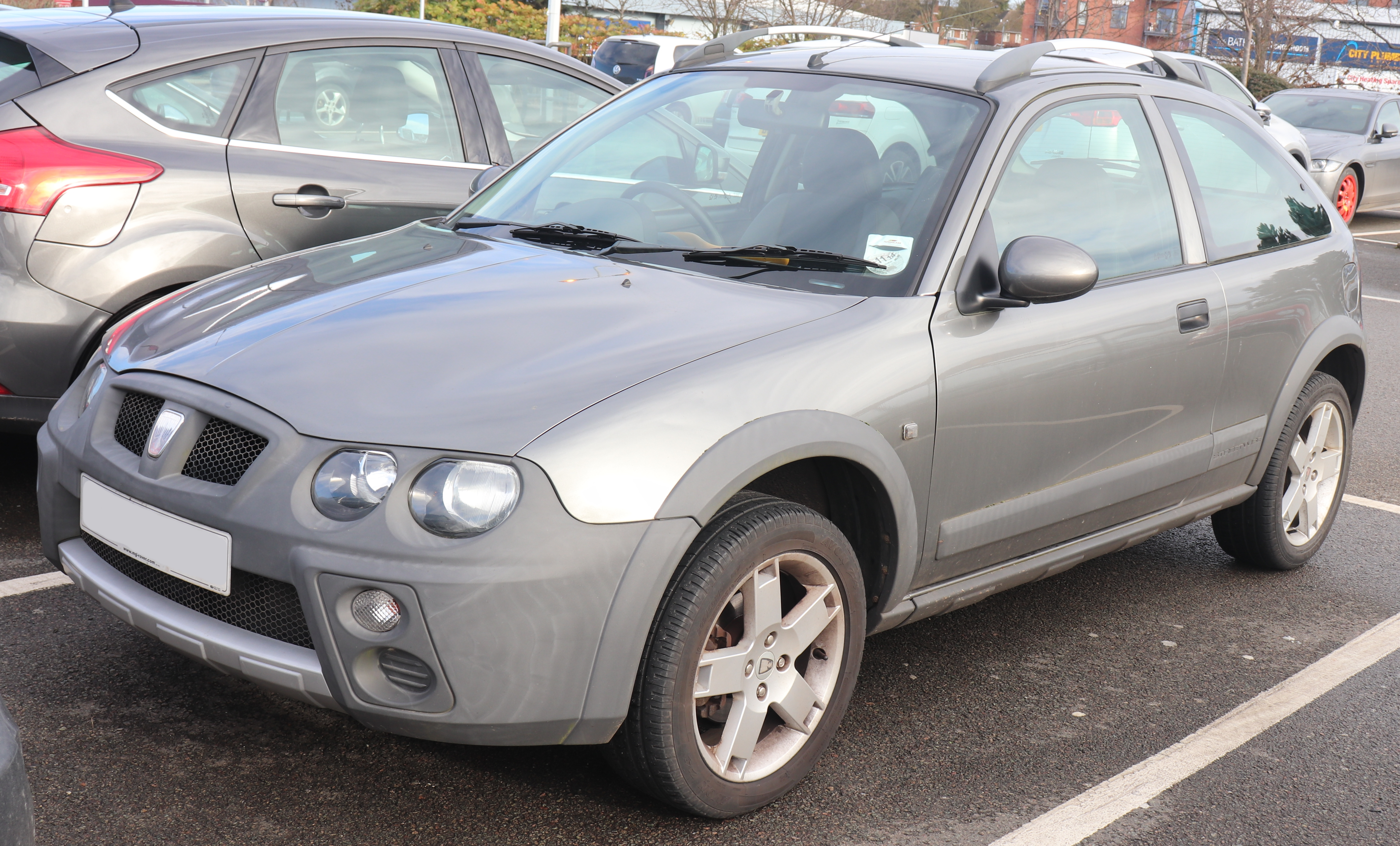 2004 Rover Streetwise S 1.4 Front Taken in Leamington Spa